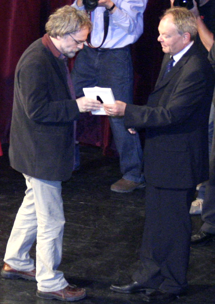 Ascher Tamas Hungarian Theater Director - receives the Best Director Award of the POSZT 2009